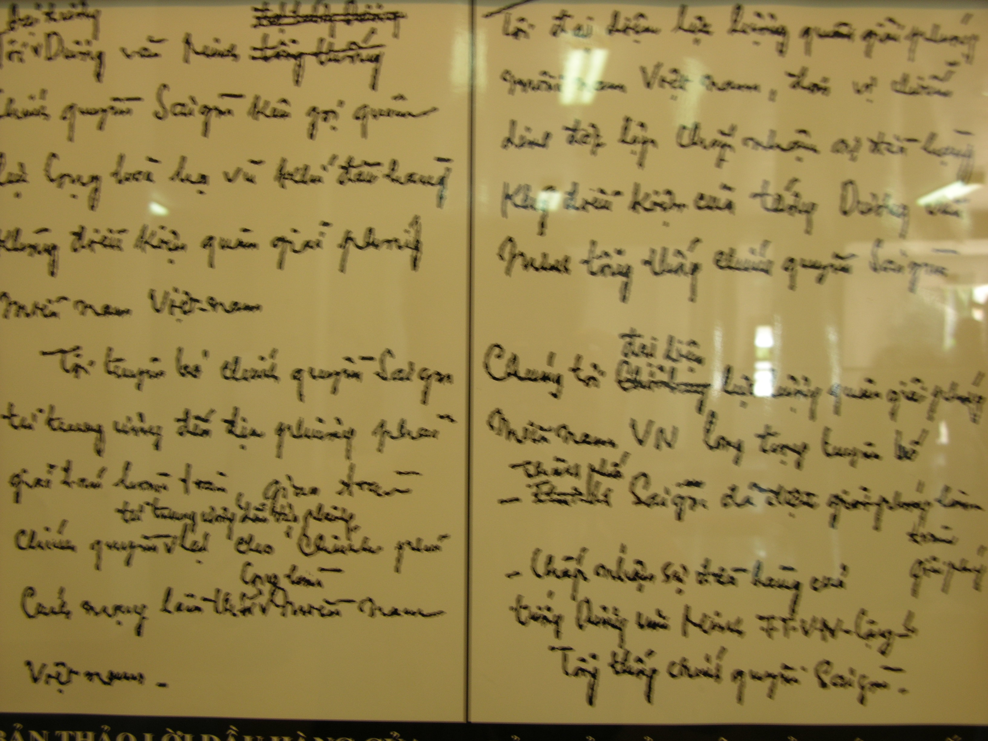 Surrender and acceptance letters by Giai phong's officer Bùi Văn Tùng, read by Duong Van Minh on April 30, 1975.